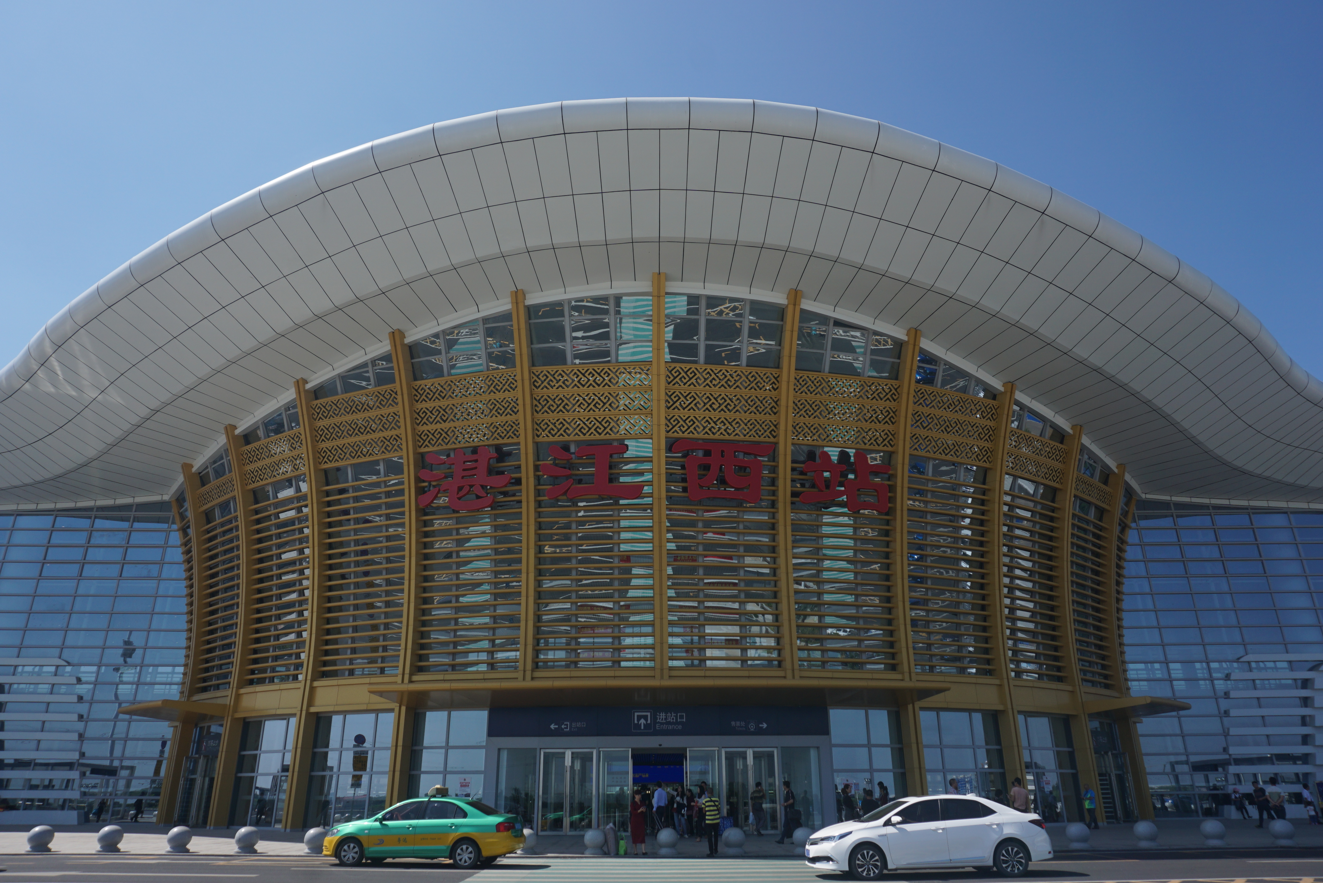 Central Entrance and the sign of Zhanjiang West Railway Station (Zhanjiangxi), in Mazhang District, Zhanjiang, Guangdong Province